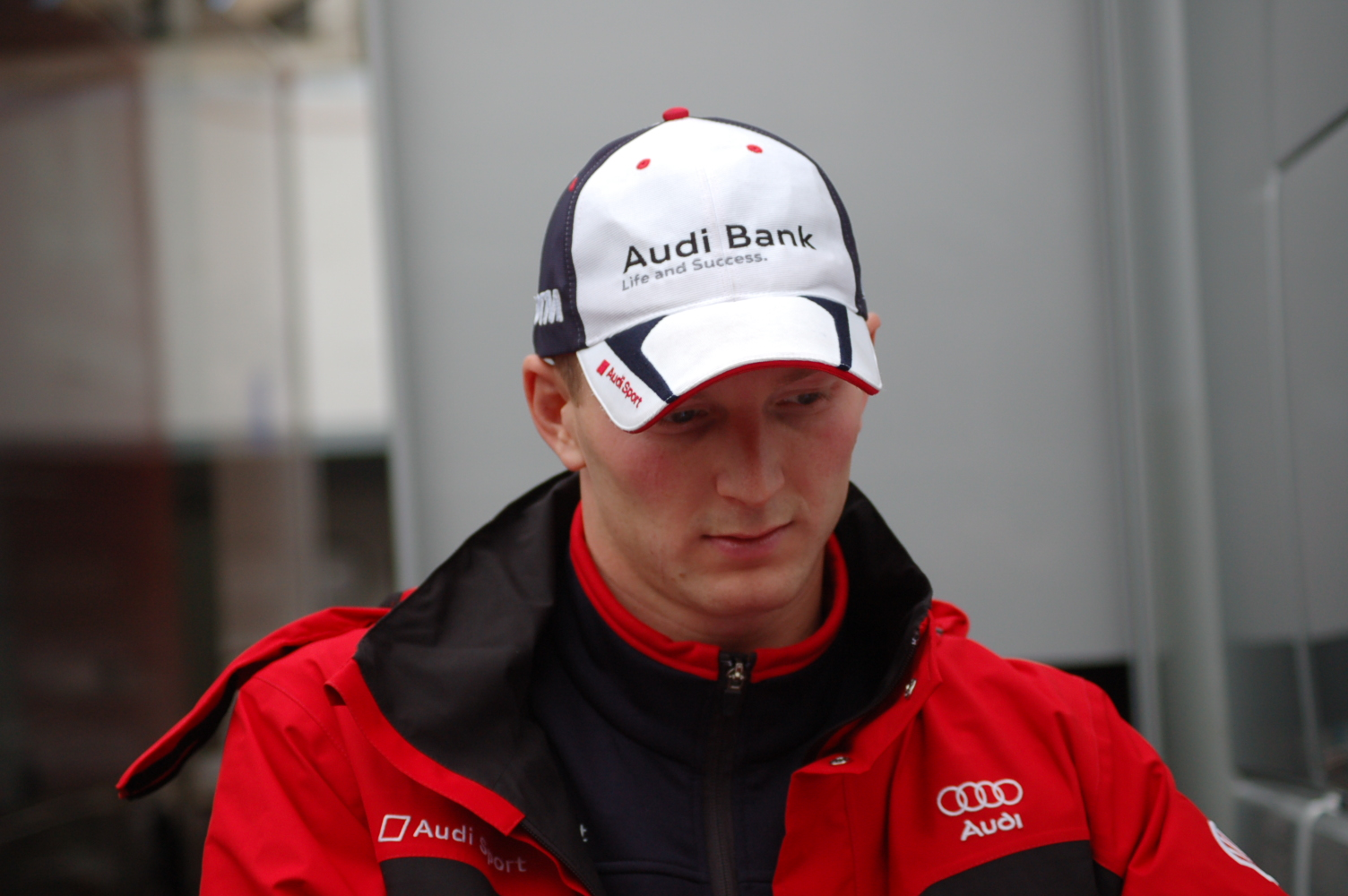 Alexandre Prémat @ Hockenheimring 2009